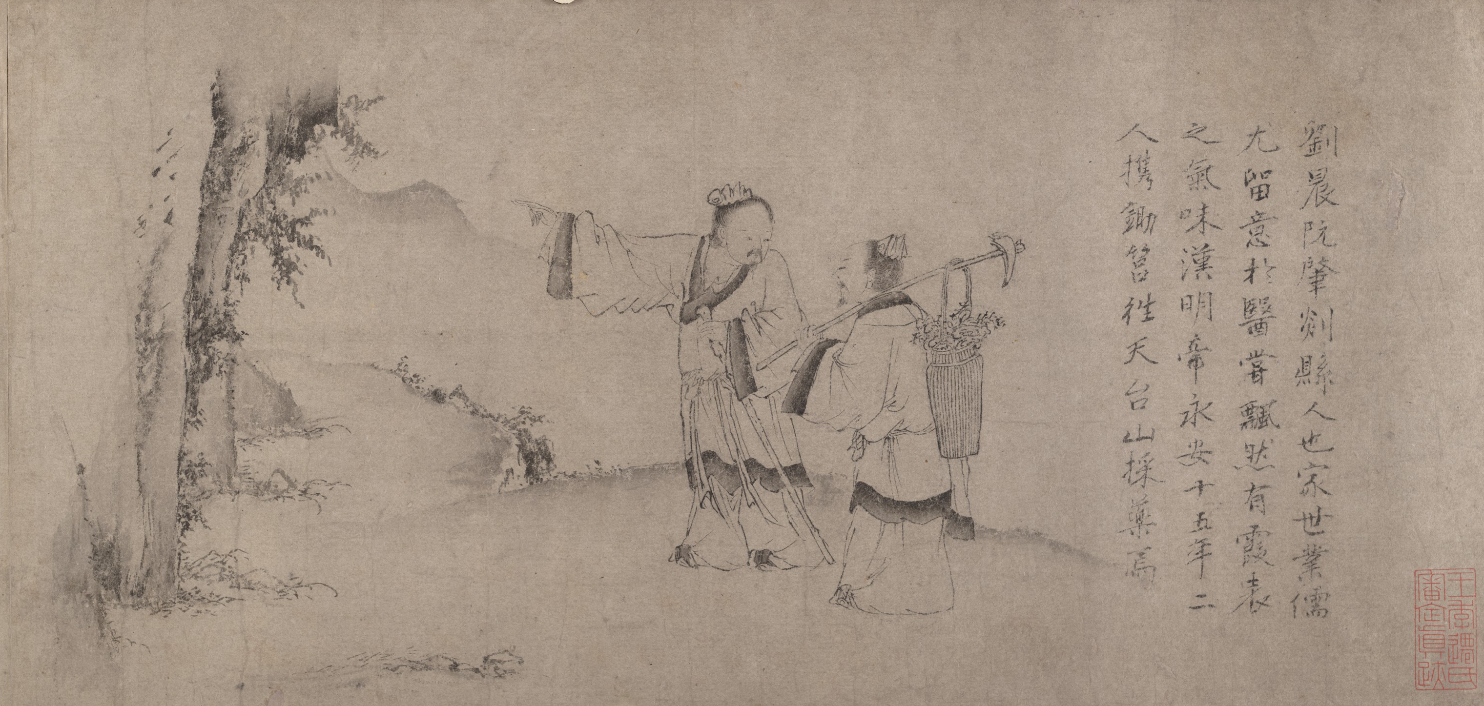 Yuan dynasty illustration depicting the legend of Liu Chen and Ruan Zhao